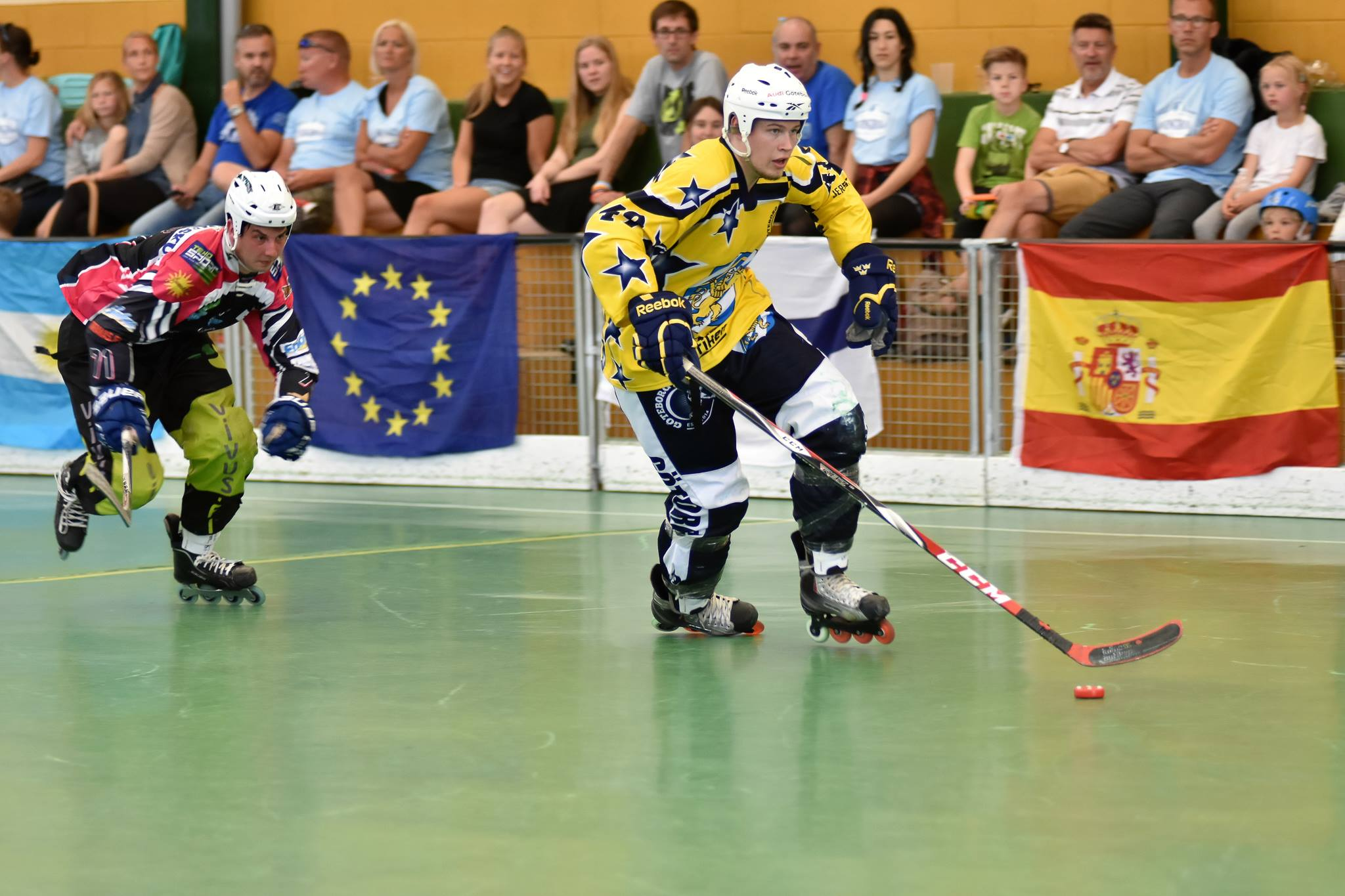 Real Inlinehockey Pahalampi vs GBG City - Players is Tsimi Planato and Rikard Jakobsson